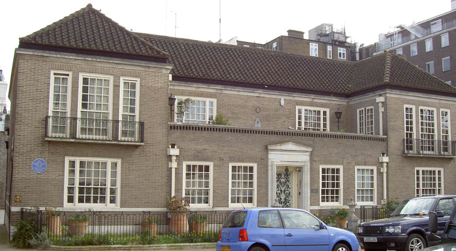 Chester House, Paddington, London. en:1925-26 by Giles Gilbert Scott for himself. Showing (left) the blue plaque in his memory. Taken on April 3, en:2005.